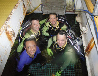 The aquanaut crew of the NASA-NOAA NEEMO 13 undersea exploration mission in the wet porch of the Aquarius underwater habitat. From left: JAXA astronaut Satoshi Furukawa, NASA astronaut Nicholas Patrick, NASA engineer Christopher E. Gerty, NASA astronaut Richard R. Arnold II. From NASA photo in public domain (caption on source page reads "Image credit: NASA").